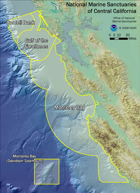 Area map showing the three National Marine Sanctuaries of the central California Coast. They are, south to north: Monterey Bay National Marine Sanctuary Gulf of the Farallones National Marine Sanctuary Cordell Bank National Marine Sanctuary